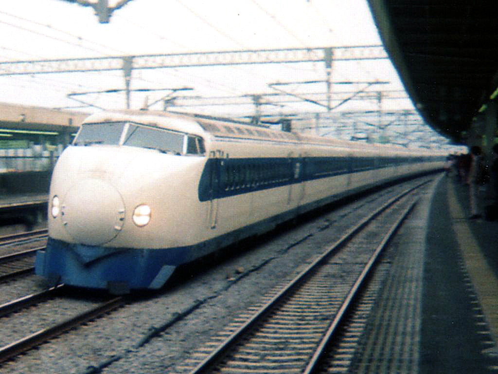 An 0 series shinkansen "NH" set passing through Odawara Station on a Hikari service